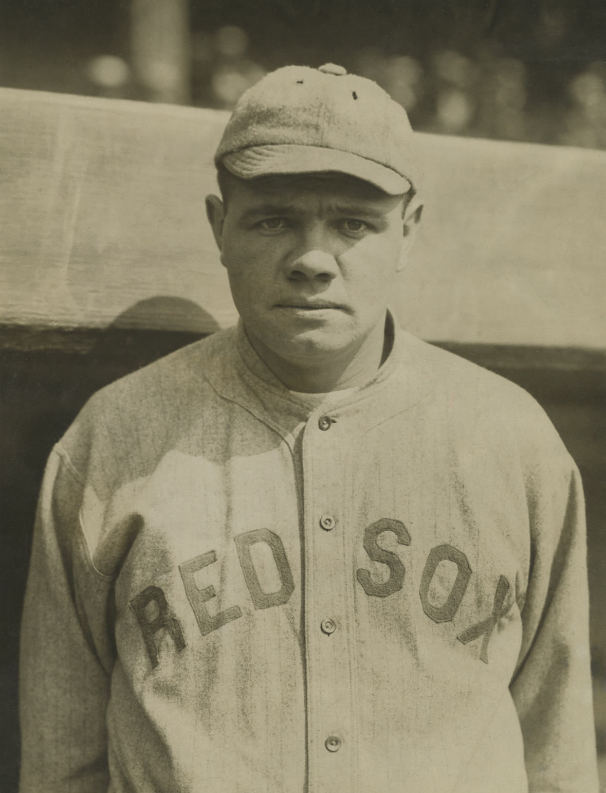 Babe Ruth standing on the steps of the dugout at Fenway Park